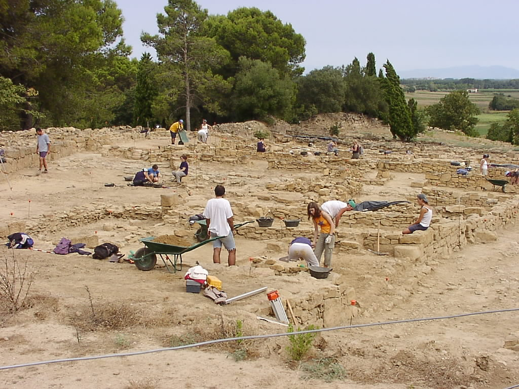 Original description by the photographer: Poblat ibèric d'Ullastret Esta foto participó en el juego